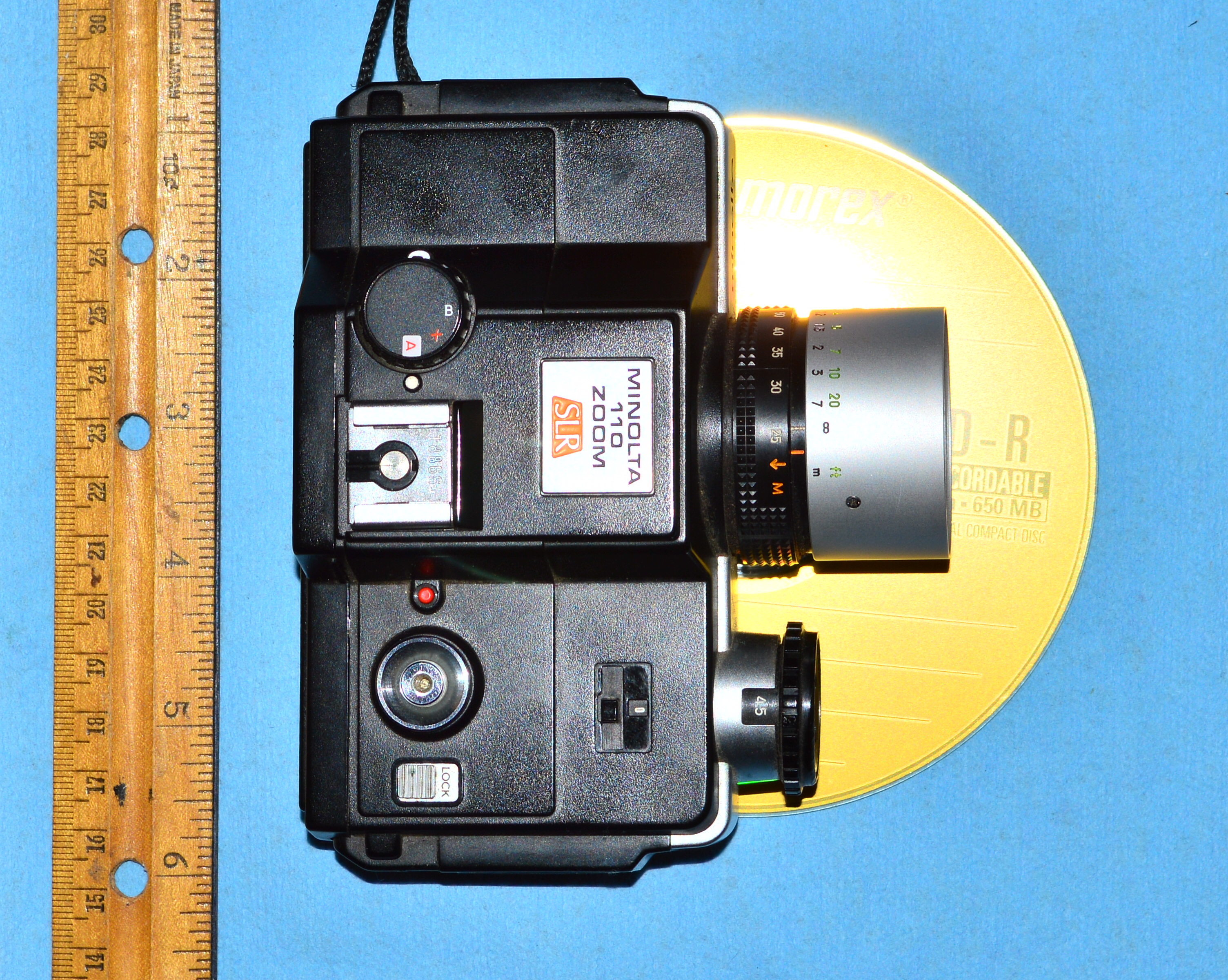 A Minolta 110 Zoom SLR shown with a ruler and a standard-sized CD-R disk, to give an idea of its size.